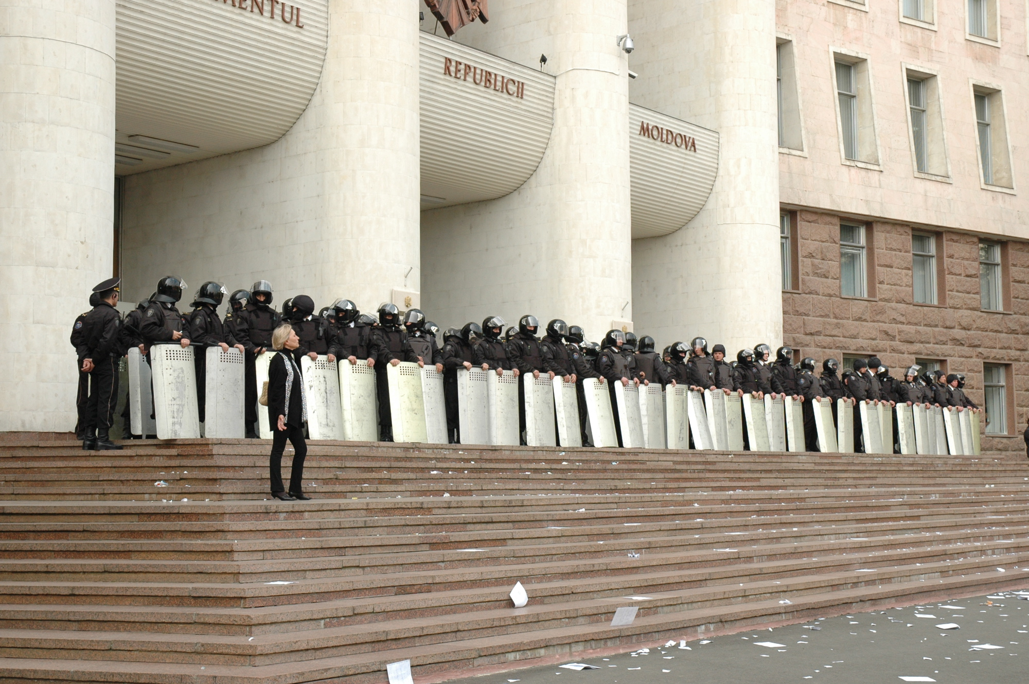 Protest riot in Chisinau after the 2009 parliamentary elections